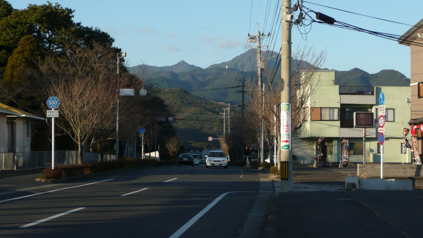 Kagoshima Prefectural Road 550 (Gonohara, Kanoya City, Japan)